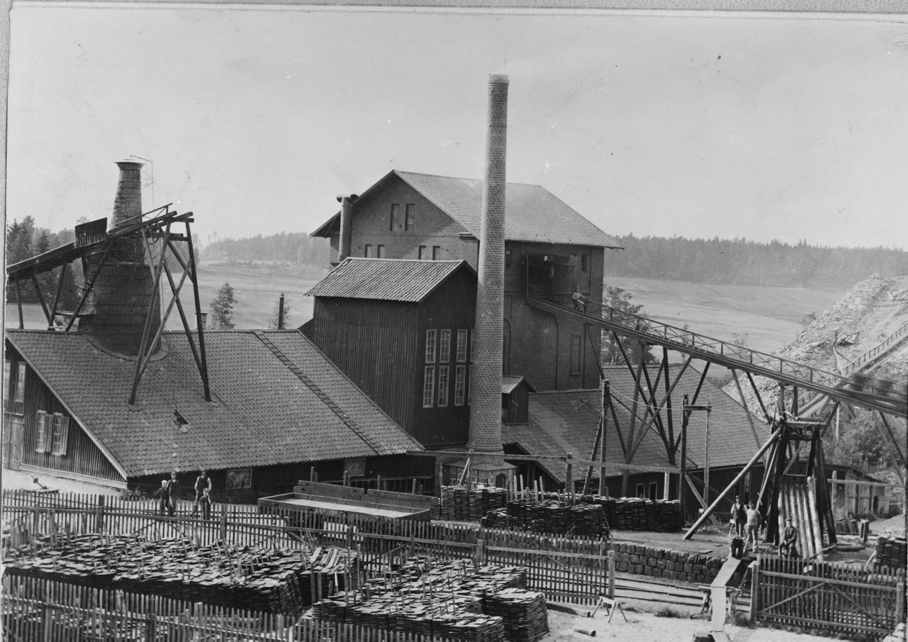 The Uttersbergs blast furnace was started 1875. It was in operation until about 1920. Uttersberg, Sweden. Wiew north, picture taken about 1918.